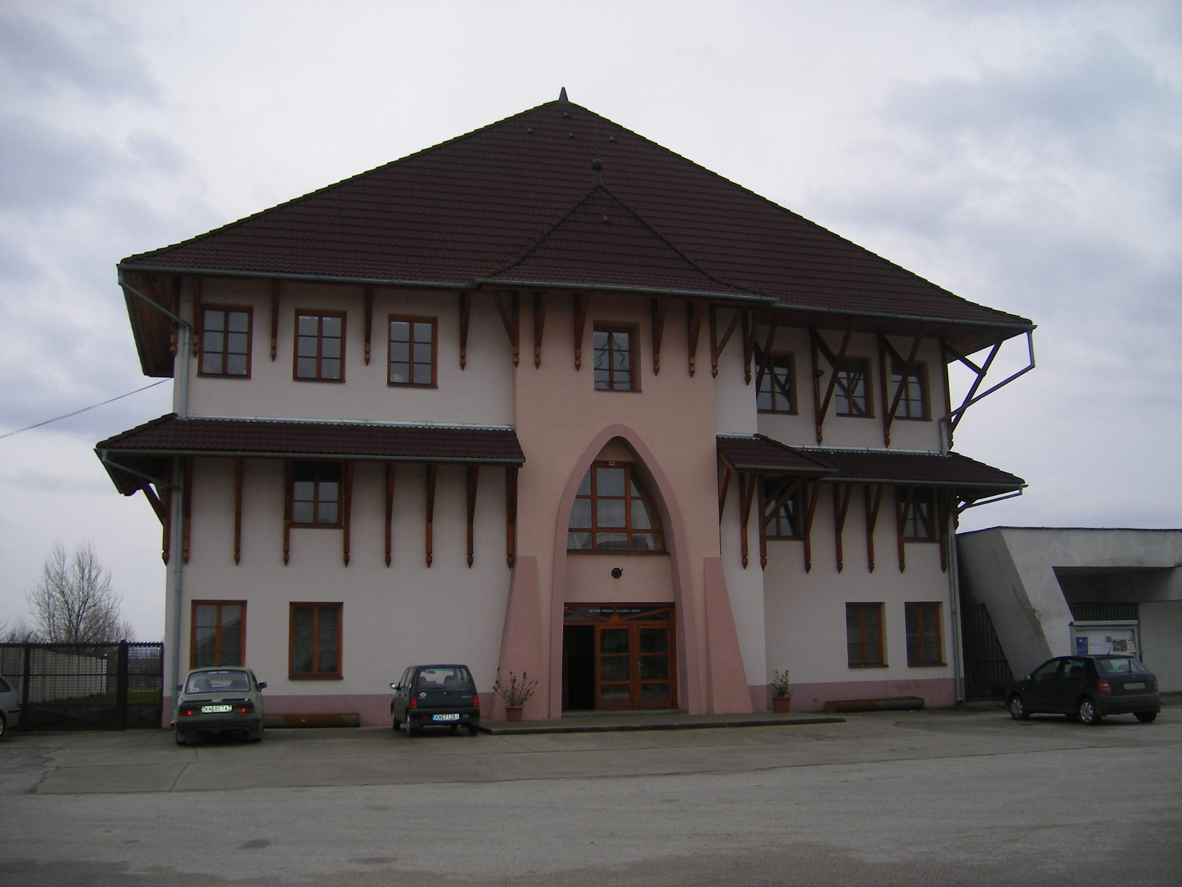 Marcelová, Cultural Centre